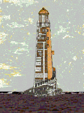 New drawing of the second Eddystone Lighthouse, at Plymouth, England, built of wood in 1709 and burned on December 2, 1755. The drawing displays the lighthouse from a side view, showing the climb along the rock base to stairs.